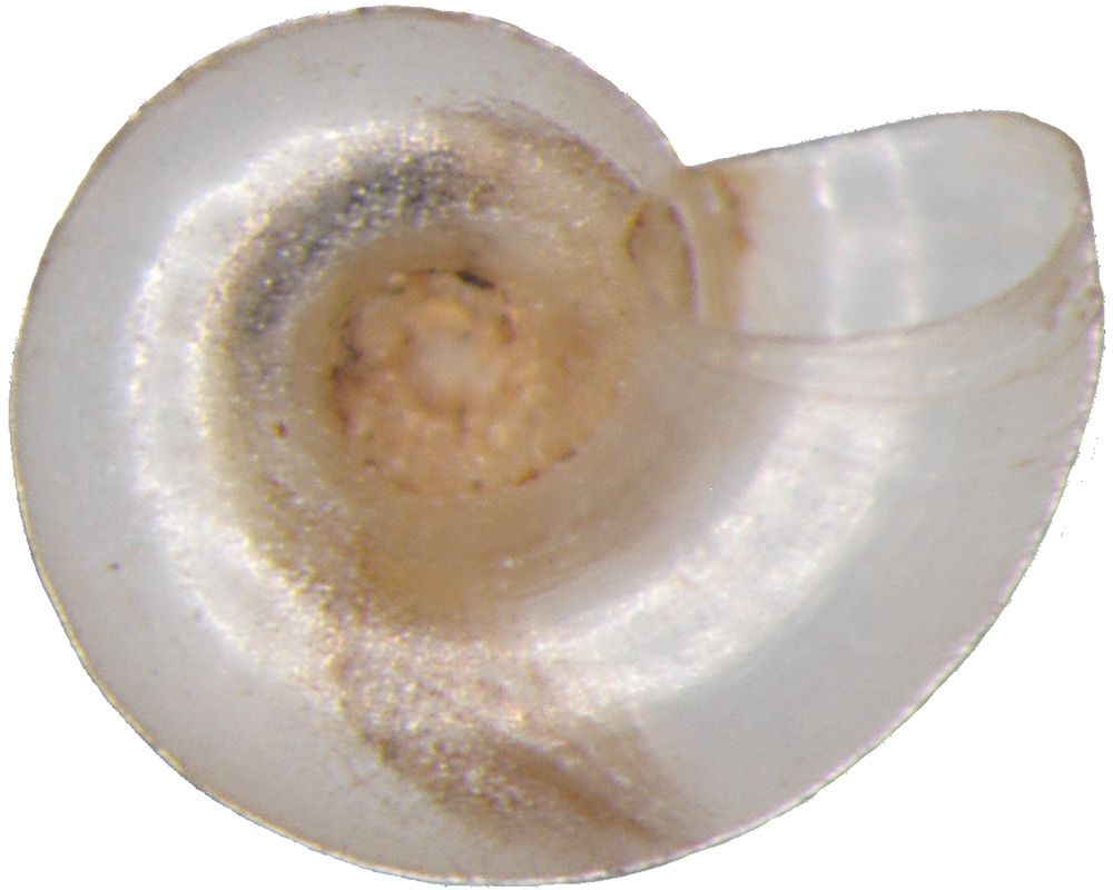 Photo of umbilical view of a shell of Hauffenia sp. from Slovakia.